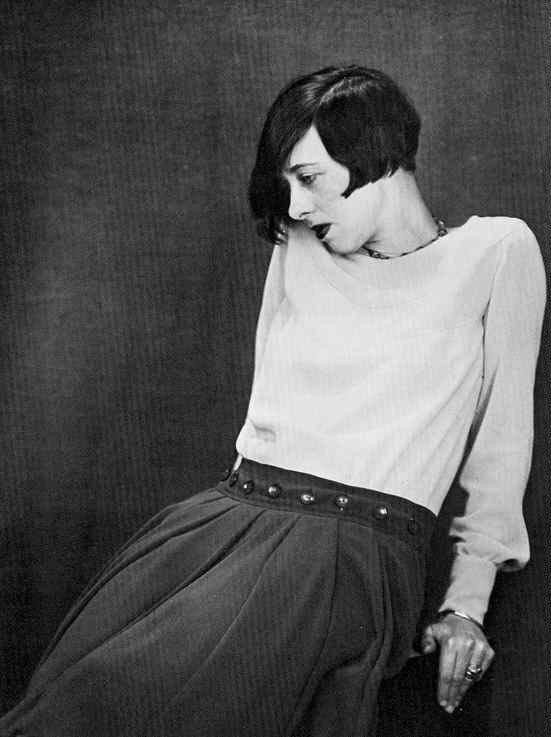 Portrait of Solita Solano